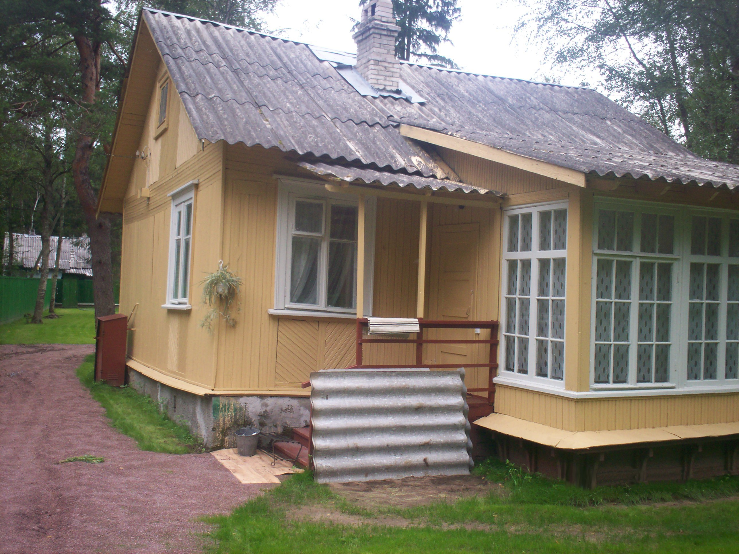 Cottage in the Solnechnoe, Russia